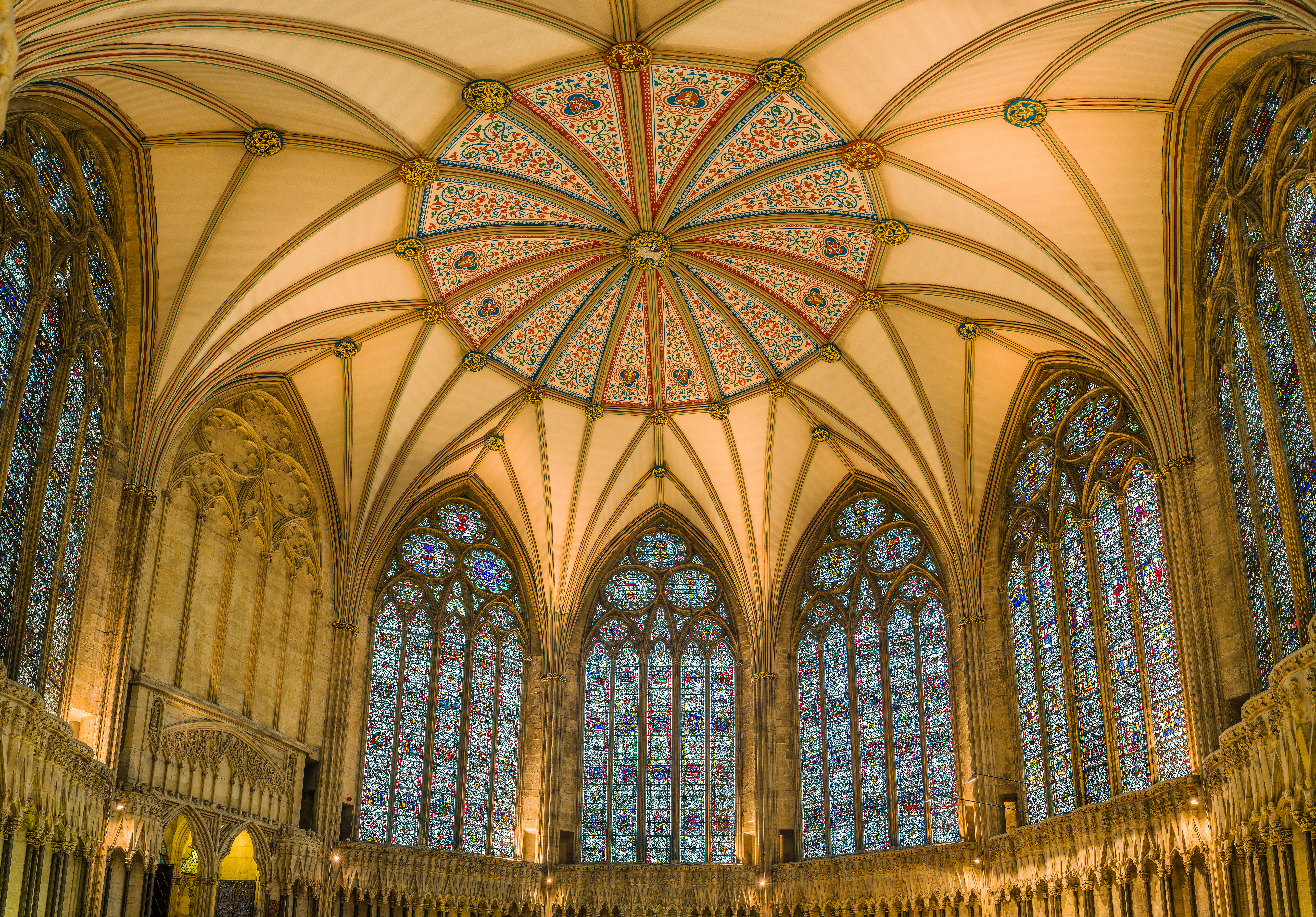 The Chapter House ceiling and stained glass of York Minster in North Yorkshire, England.